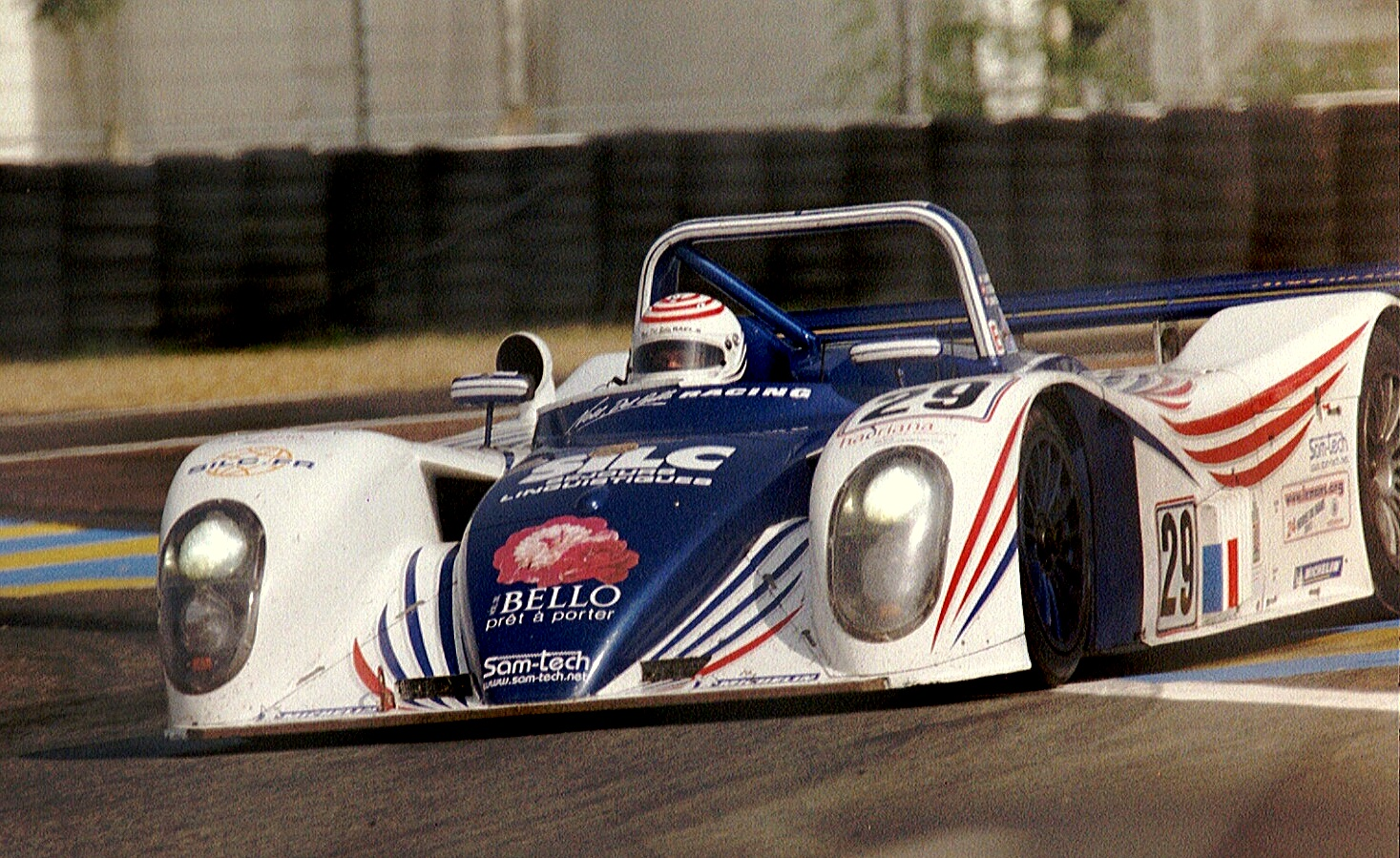 Reynard 2KQ Prototype driven by Christophe Pillon, Didier Andre & Jean-Luc Maury-Laribiere at Ford Chicane at the 2003 24 Hours of Le Mans